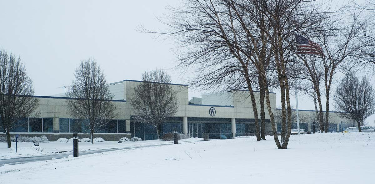 The West Building of the Midwest Airlines headquarters, in Oak Creek, Wisconsin.